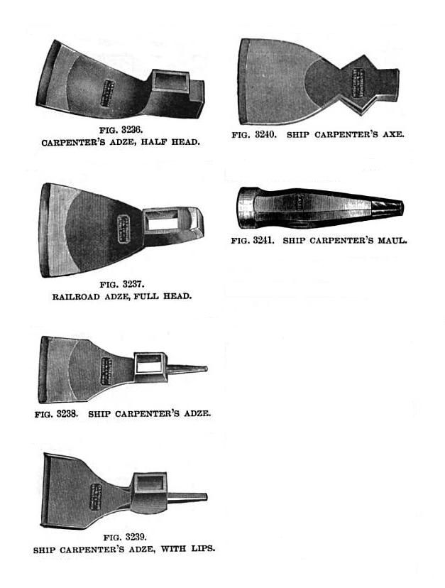 19th century knowledge woodworking adze and axe